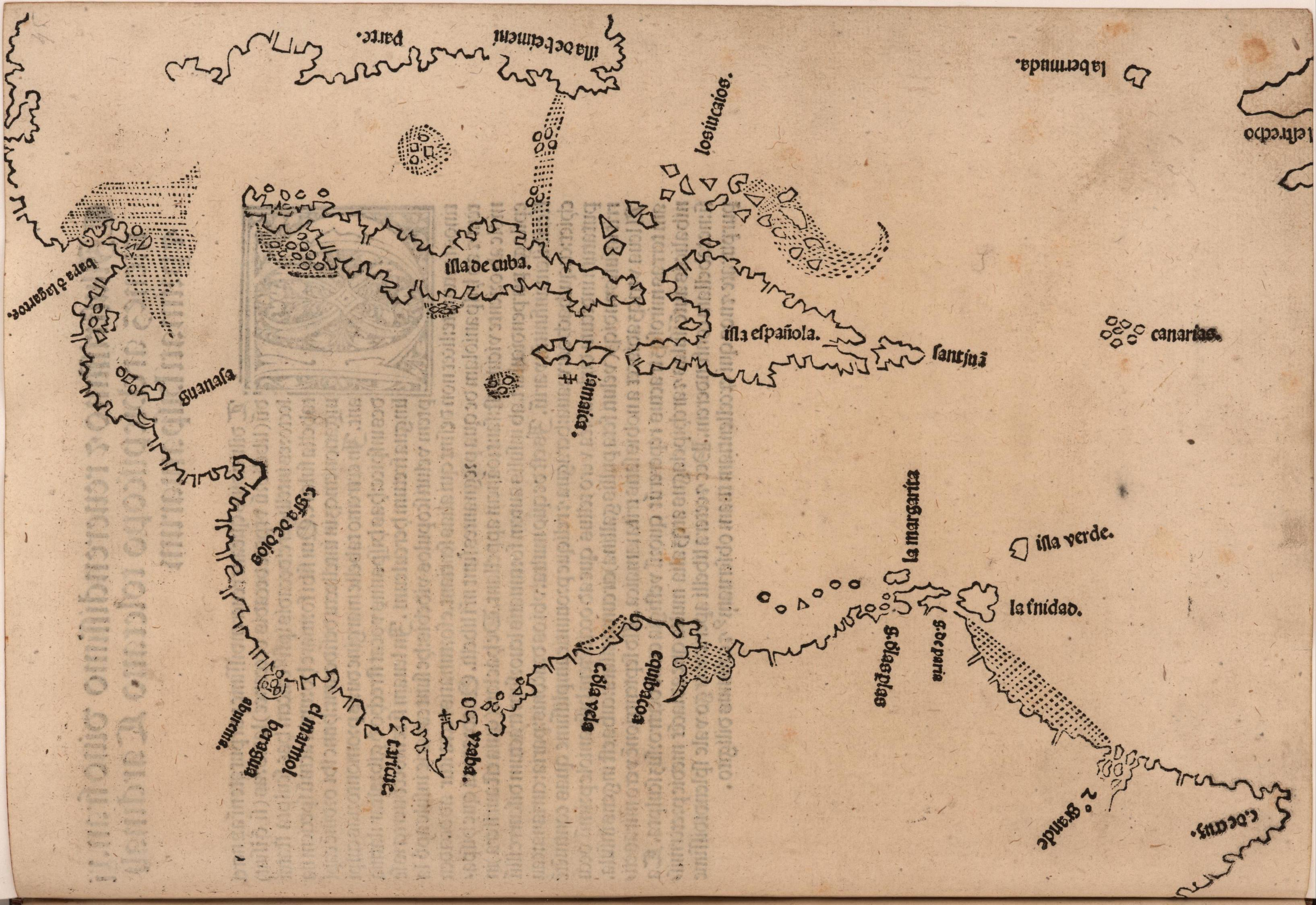 A map of the Caribbean basin, including the islands of Hispaniola, Cuba, Jamaica, with the coast of Florida and Central America. Nautical elements include soundings. This is the first printed map specifically devoted to the Americas and the first mention of Bermuda on a map.